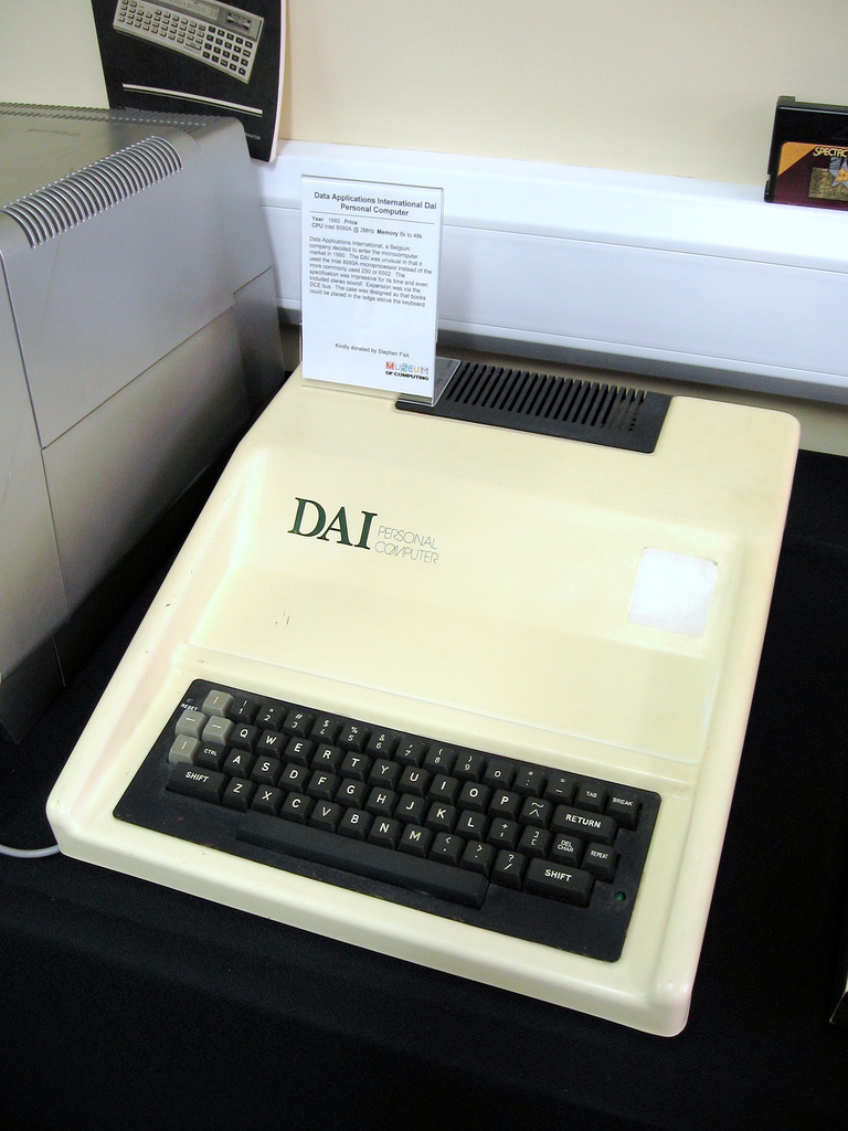 DAI Personal Computer, from National Museum of Computing (UK)